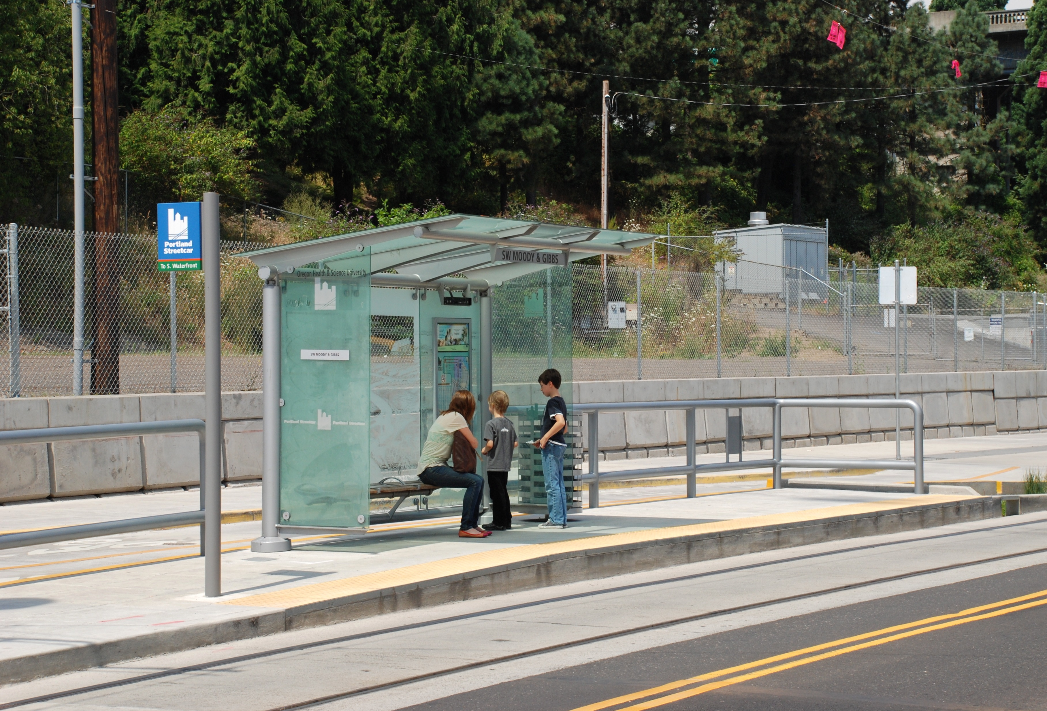 The Moody & Gibbs stop (on SW Moody Avenue at Gibbs Street) of the Portland Streetcar system's NS Line, in August 2012, just a few weeks before a (small) ticket vending machine was installed. The 2001-opened modern-streetcar system originally had ticket machines only on-board the streetcars, but machines were added at stops in 2012, just before the opening of the second line, the CL Line.